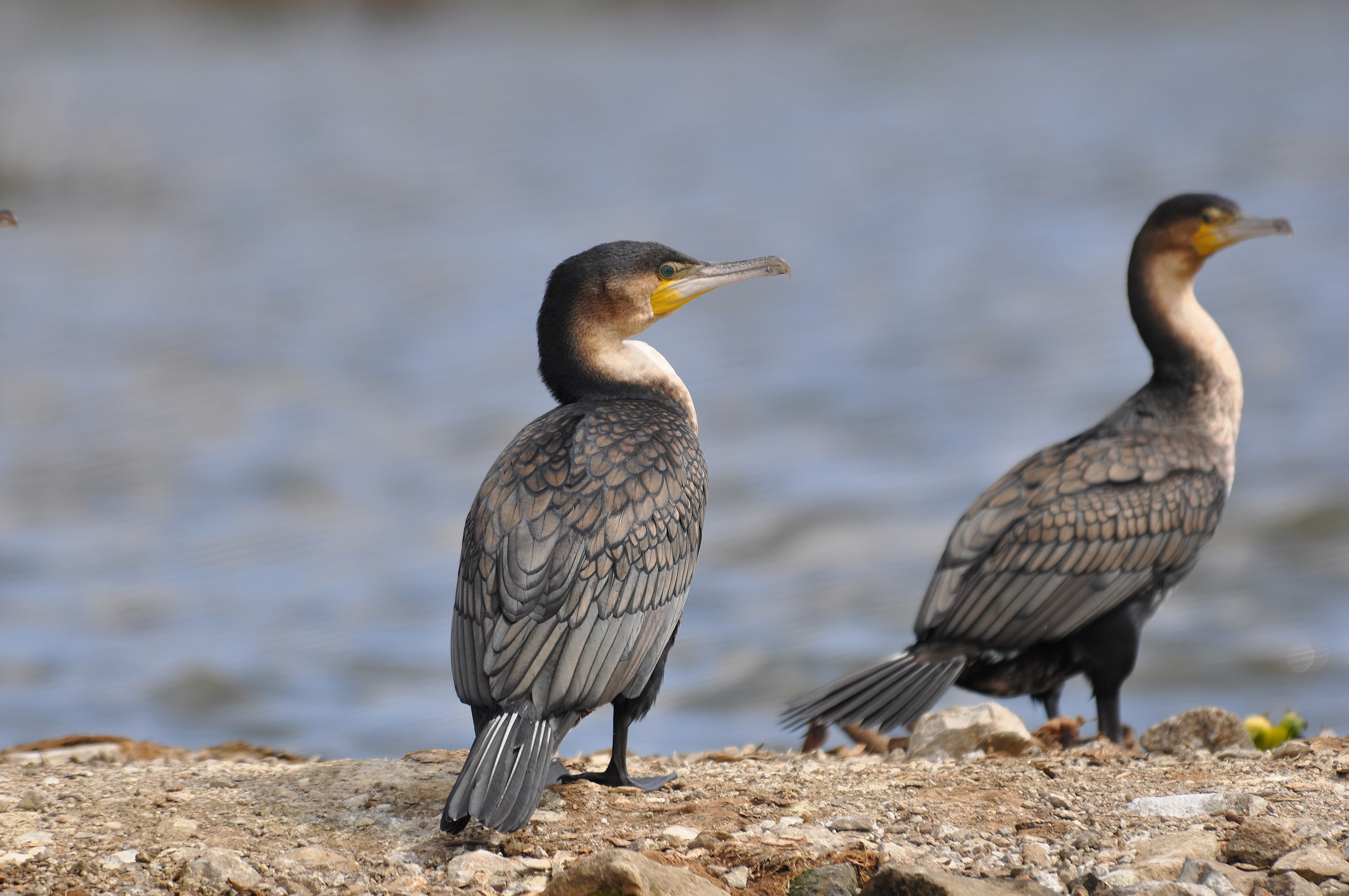 Two white-breasted cormorant. Photo taken in Lake Naivasha, Kenya, in October 2014.